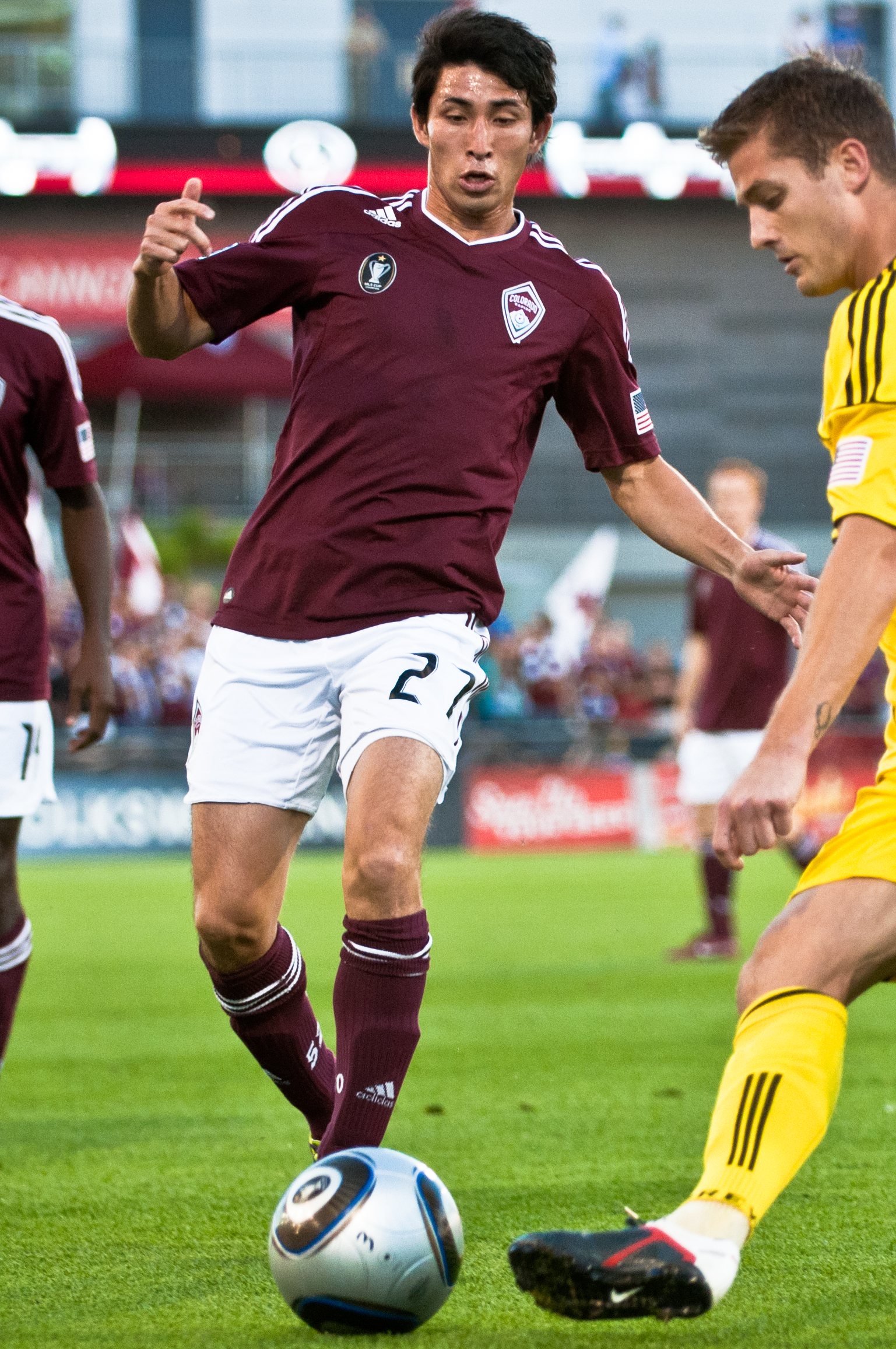 Photo of Kosuke Kimura while playing with the MLS team, Colorado Rapids in 2011, at Dick's Sporting Goods Park in Commerce, Colorado.